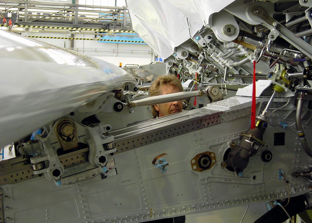 Flap of an Airbus A330